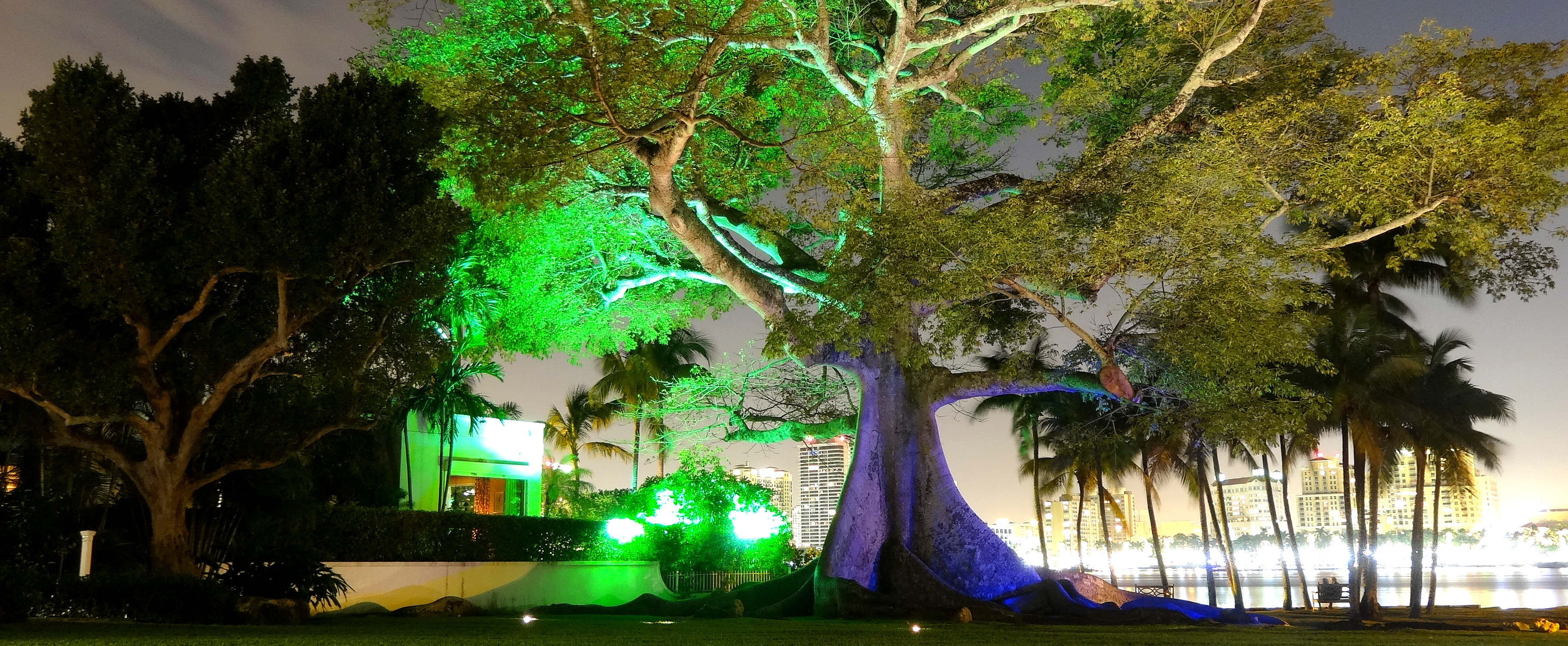 Night view from Palm Beach Florida. For the location of the photo, please refer to its original public sharing site